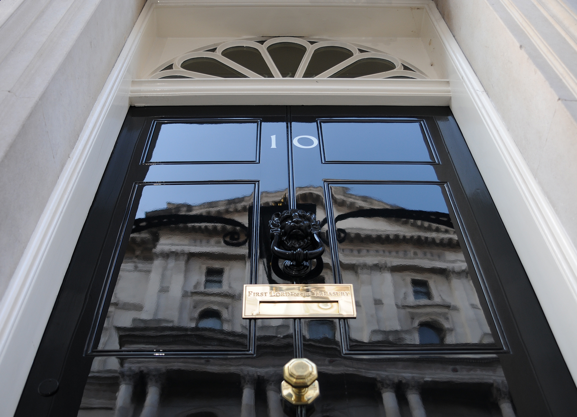 The famous black door of Number 10 Downing Street, London